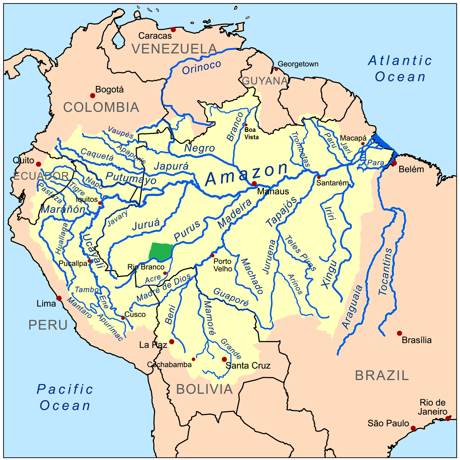 Distribution Leontocebus cruzlimai